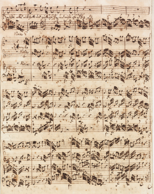 Second page of Johann Sebastian Bach's autograph of Alles mit Gott und nichts ohn' ihn, BWV 1127 (Duchess Anna Amalia Library in Weimar)[1]